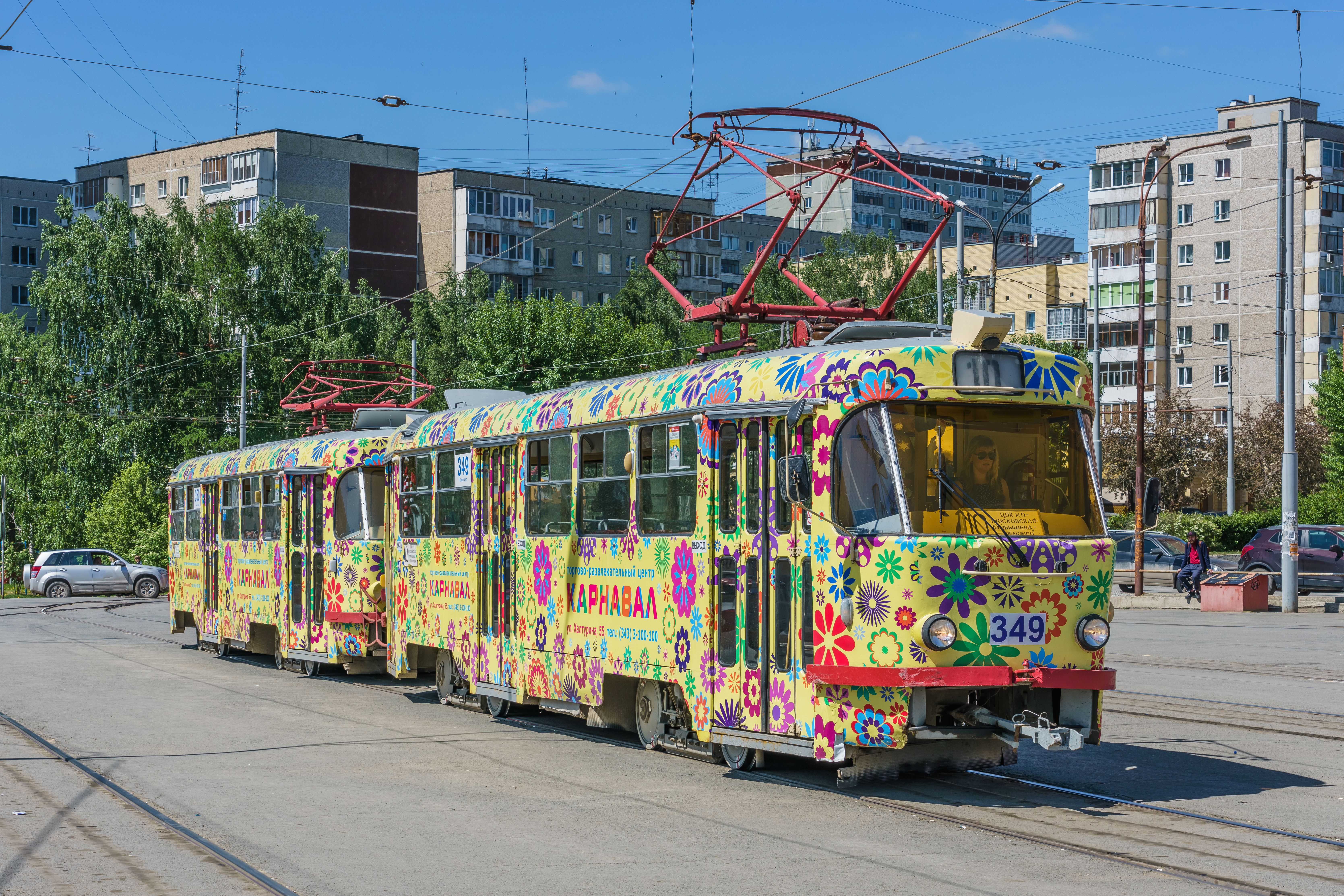 Tatra T3 tram on the loop near Mayakovsky Park in Ekaterinburg, Russia